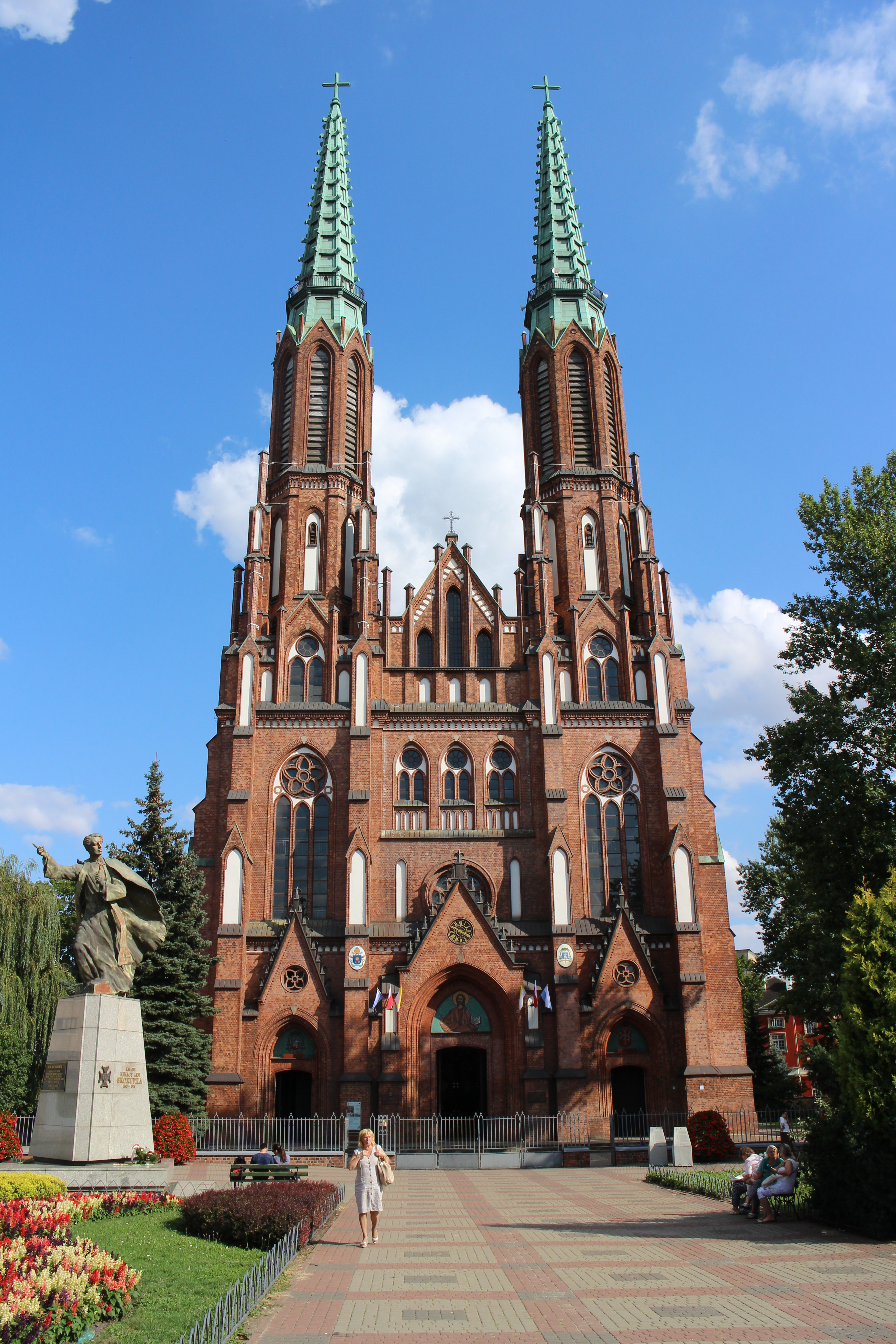 Saints Michael Archangel and Florian Basilica in Warsaw